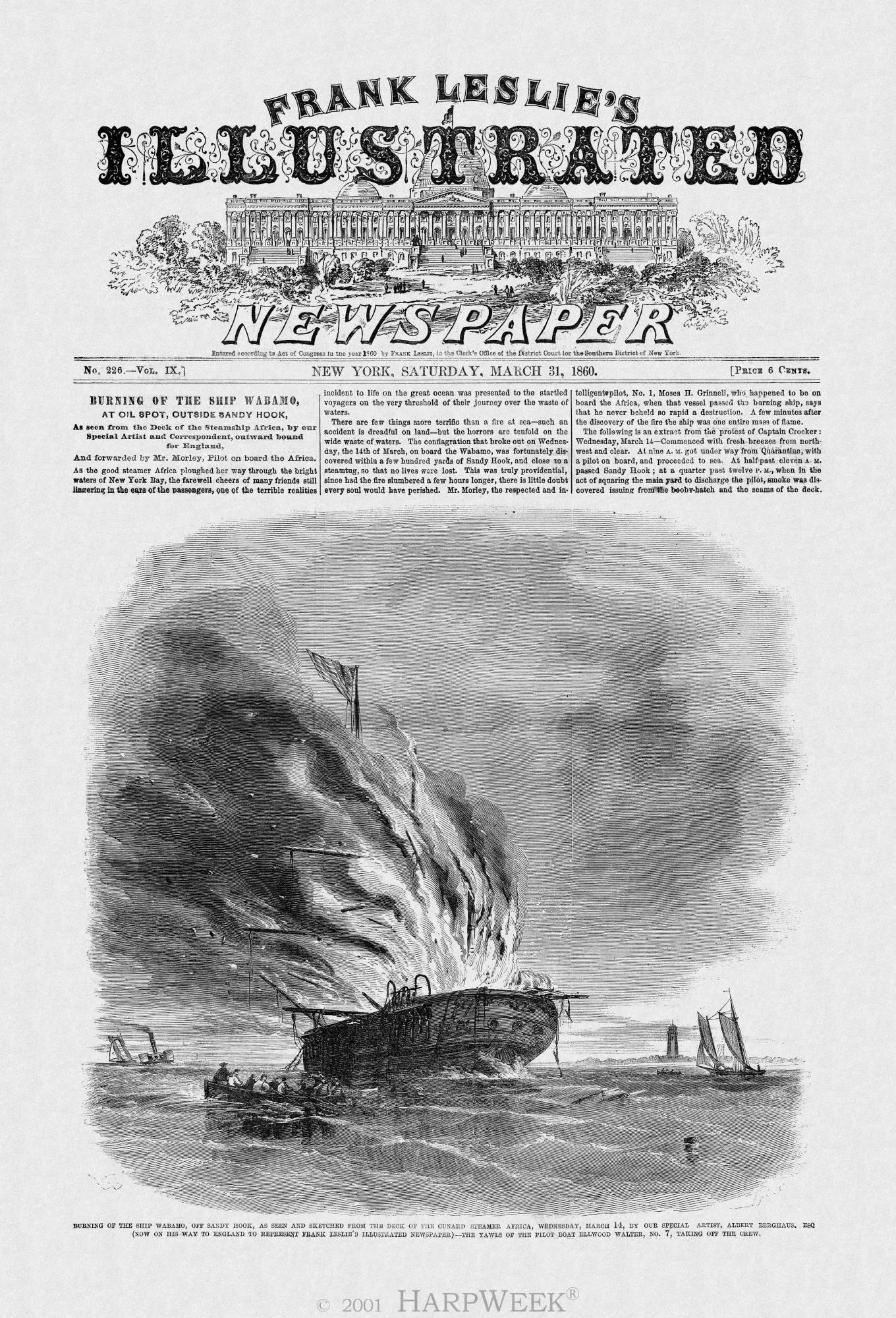 Frank Leslie's Illustrated. March 31, 1860, Burning of the ship Wabamo, Off Sandy Hook, as seen and steched from the deck of the Cunard Steamer Africa.